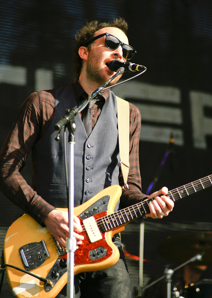 Jimmy Shaw of Metric rocks out on the guitar.